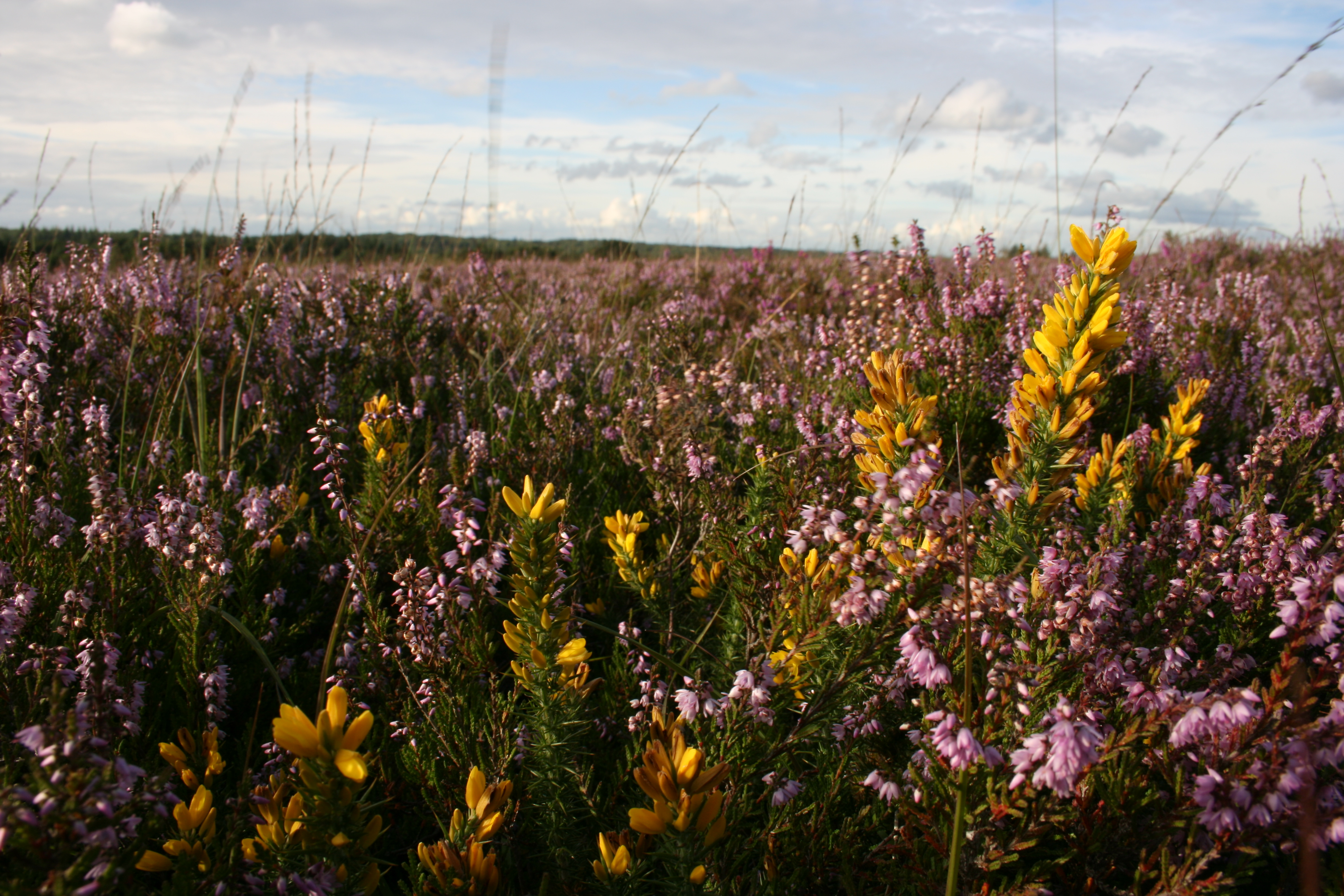 Heathland on Picket Hill, New Forest, Hampshire, England. Dwarf furze (Ulex minor) growing amongst heather (Calluna vulgaris).